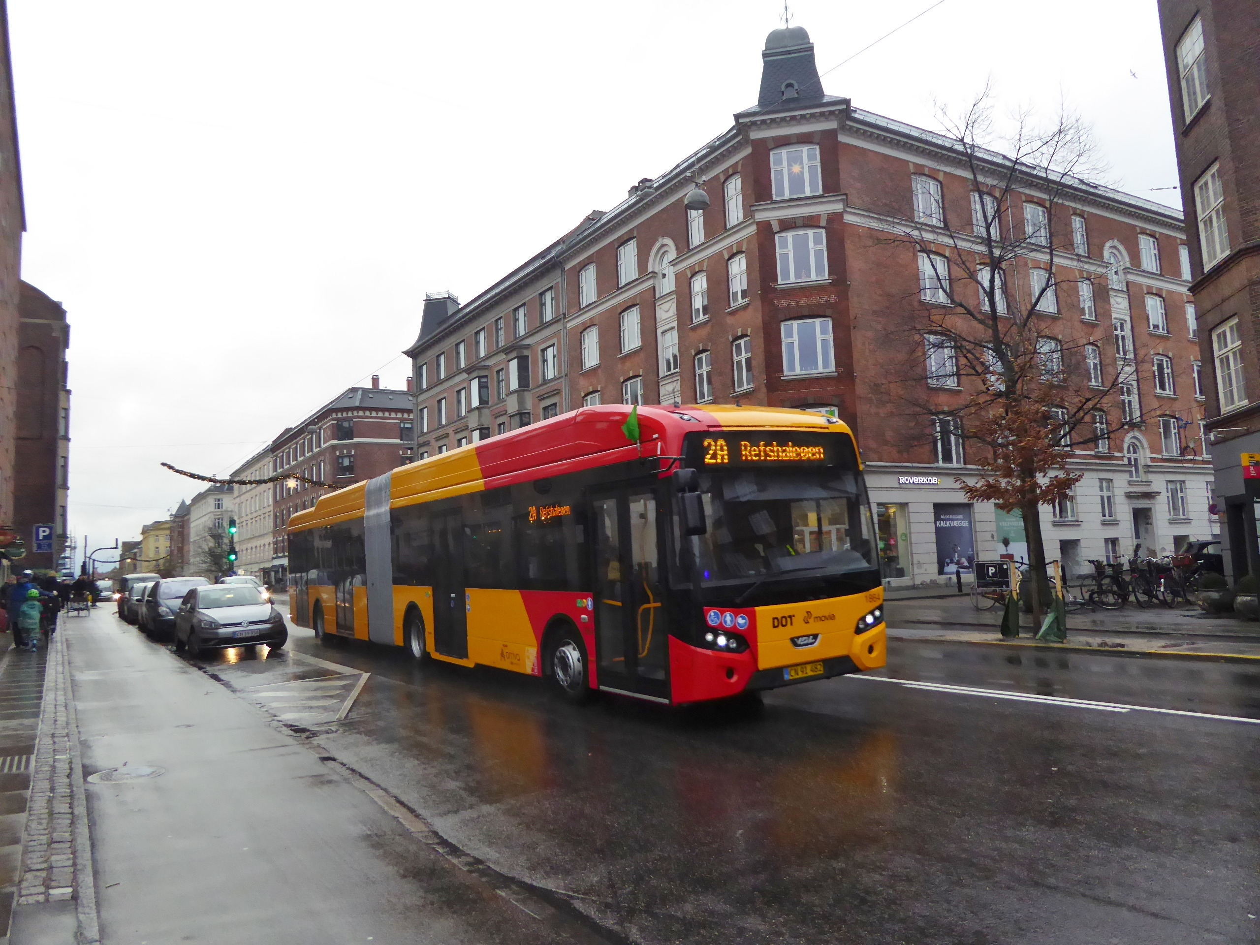 Movia bus line 2A on Godthåbsvej at Aksel Møllers Have in Frederiksberg in Copenhagen. The small green flags are because this was the first day with electric buses on line 2A.